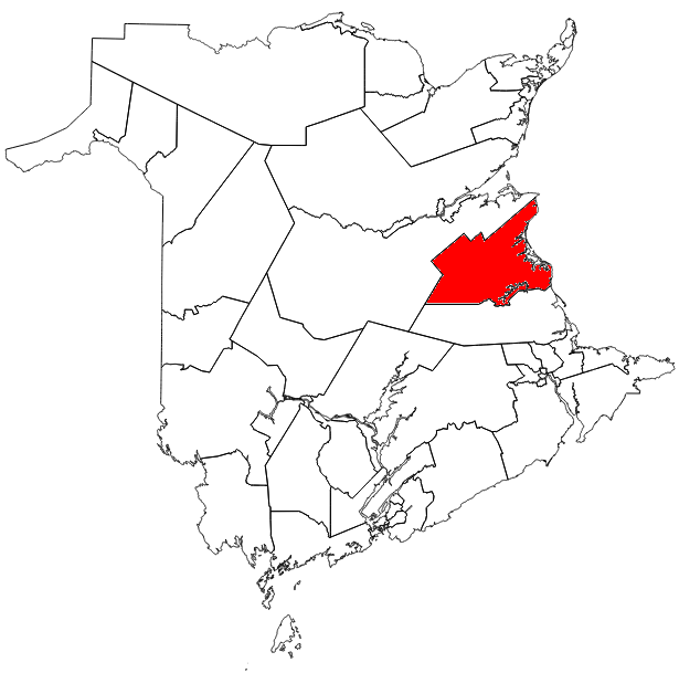 The riding of Kent North in relation to other New Brunswick electoral districts.